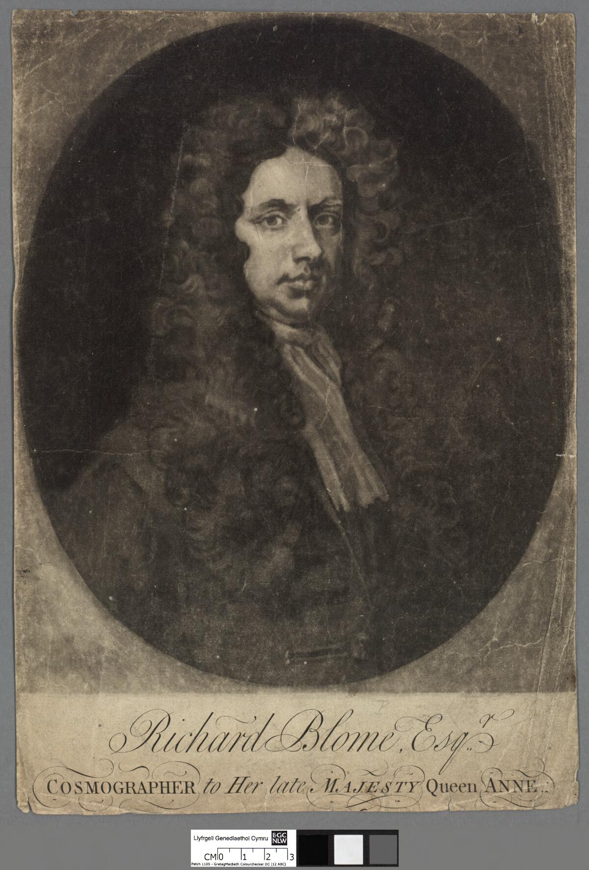 A portrait from the Welsh Portrait Collection at the National Library of Wales. Depicted person: Richard Blome – English engraver, cartographer, and publisher